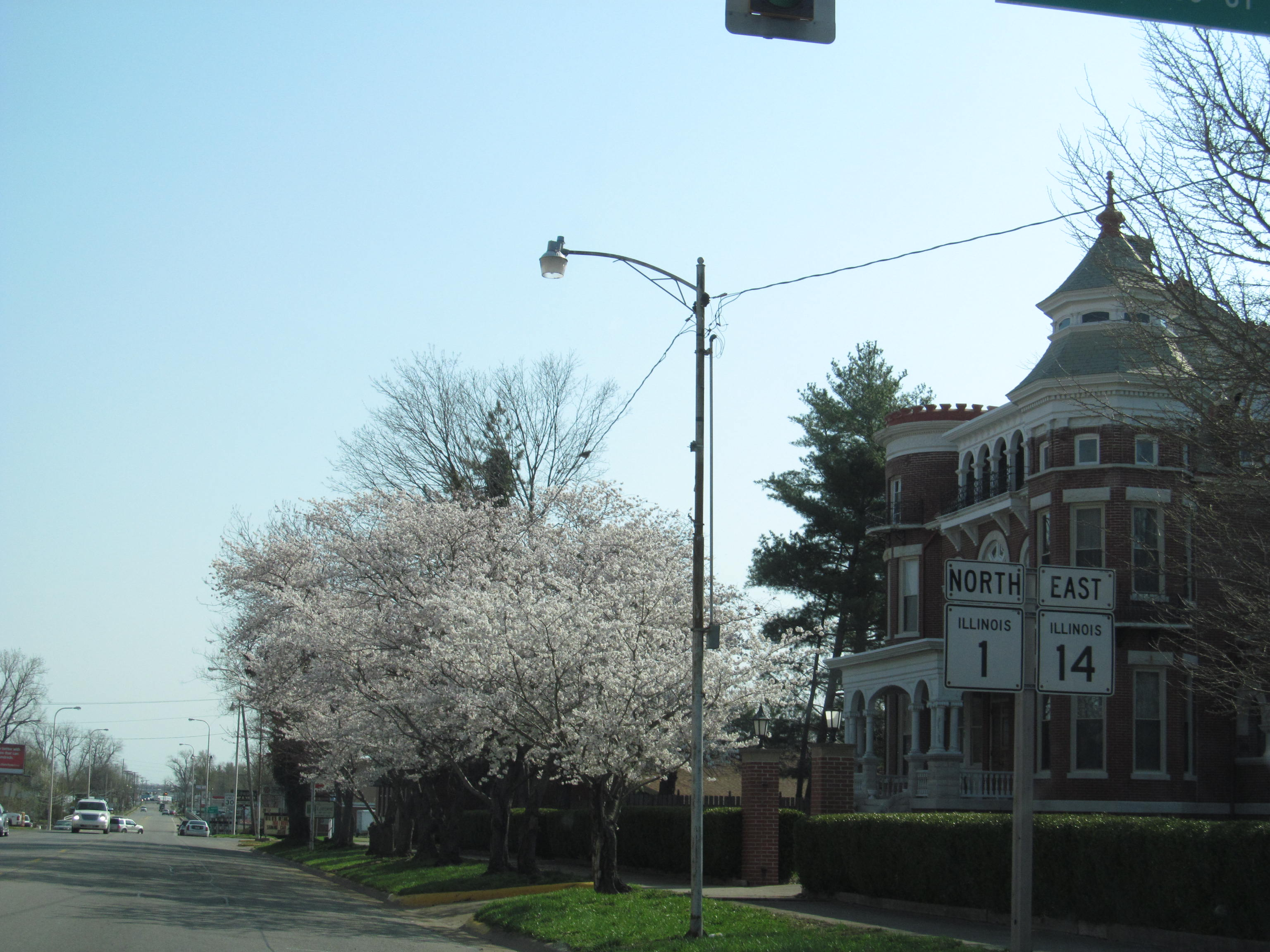 Illinois Routes 1 and 14